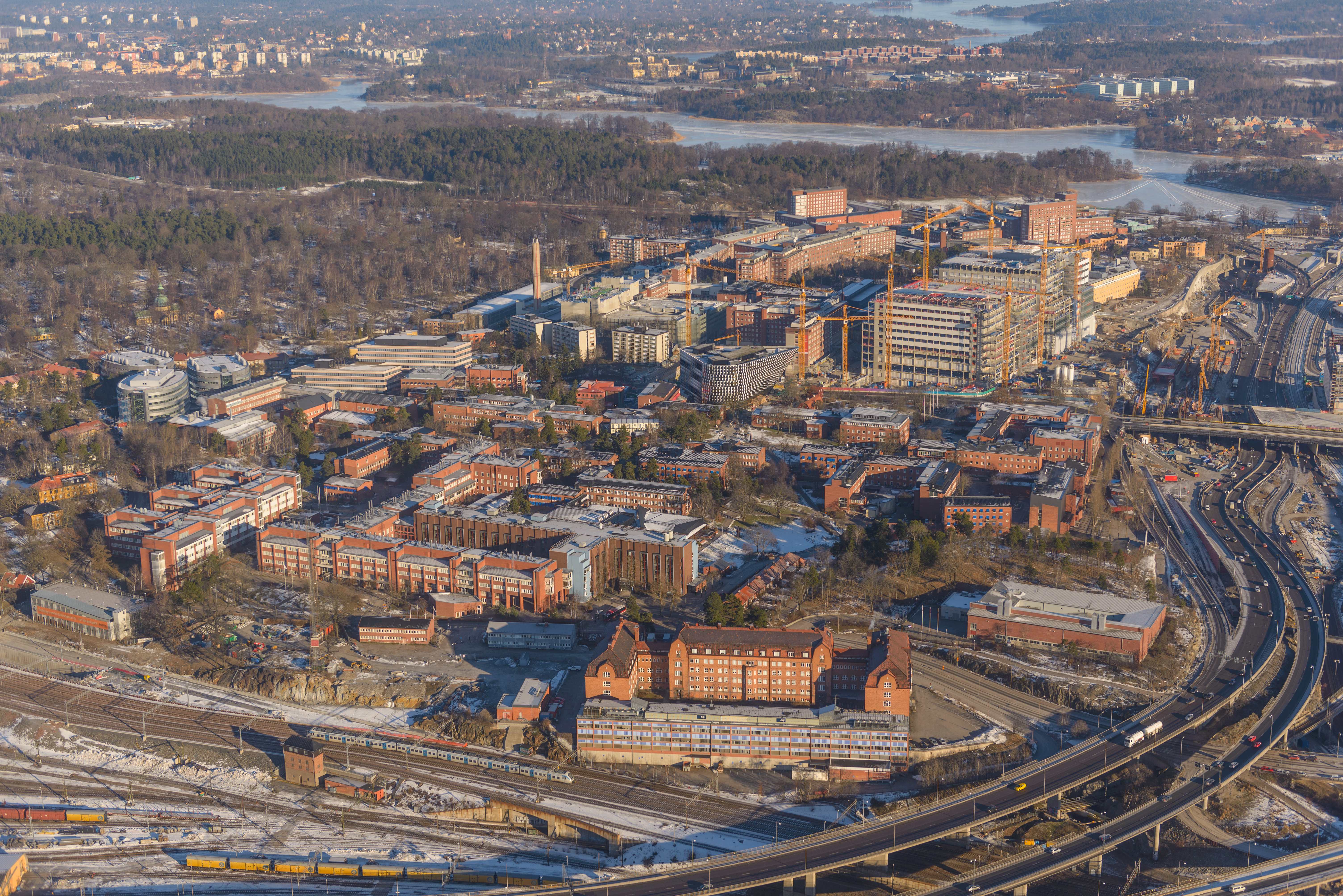 Karolinska institutet and Karolinska sjukhuset.